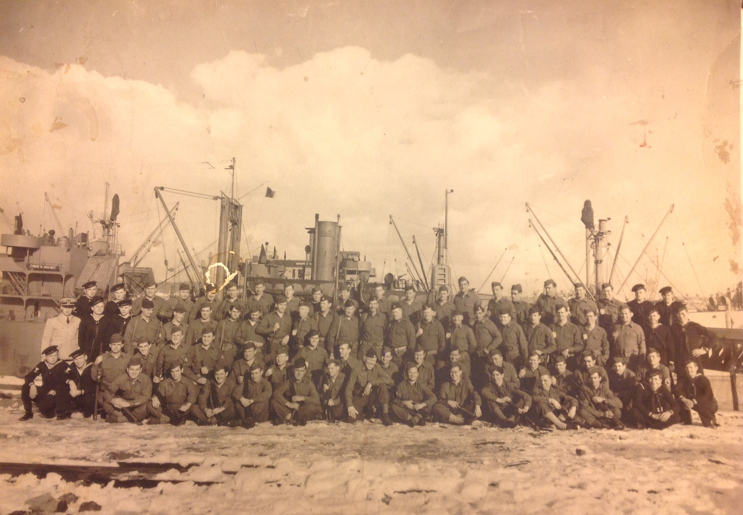 1071st Engineer Port Repair Ship Crew, in front of ship, Junior N. Van Noy. Undated photo, likely 1944. - On 10 August the engineers working on the Cherbourg quays saw a new kind of ship steaming into the harbor. She was the Junior N. Van Noy, the first engineer port repair ship sent overseas. A converted Great Lakes steamer displacing only 3,000 tons, the ship had machine shops, storage bins, and heavy salvage equipment aboard. Her decks bristled with derricks and booms for lifting sunken ships and other debris. Manning the ship was the sixty-member 1071st Engineer Port